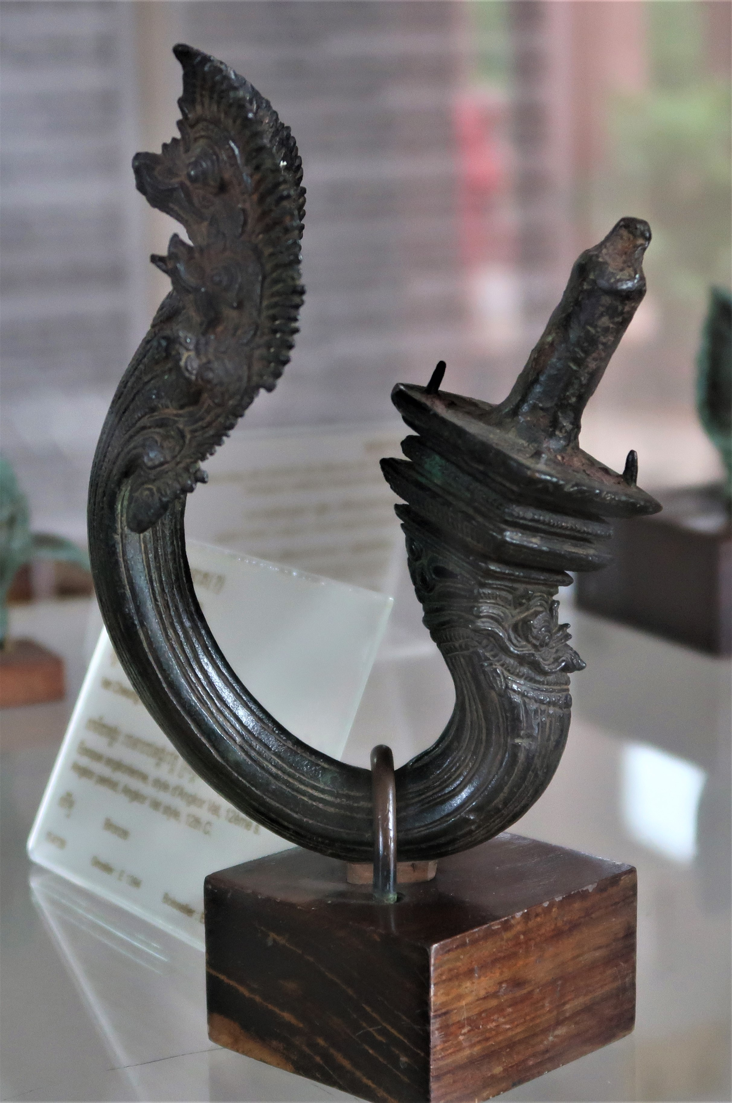 Chair leg made of bronze. Leg dates back to 12th century and is from Angkor period; made in Angkor Wat style. On display at the National Museum of Cambodia